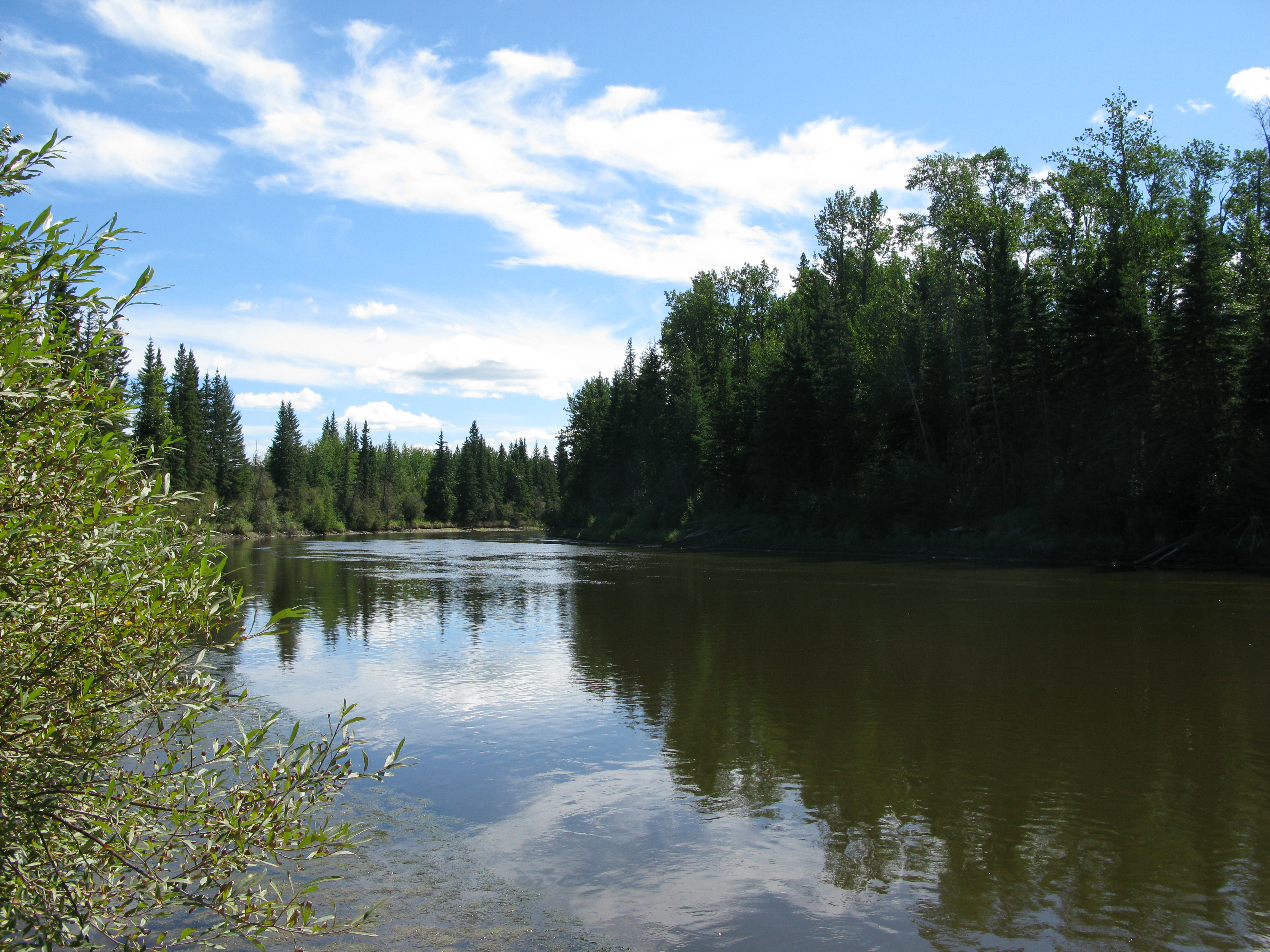 Lesser Slave River, near Slave Lake, Alberta.